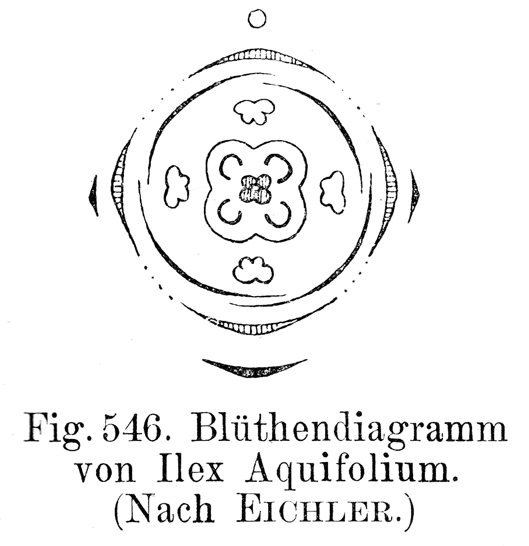 Diagram of a flower of Ilex aquifolium (Aquifoliaceae)